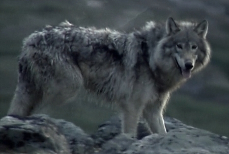 Gray Wolf at the rocky tundra of Northern Labrador.